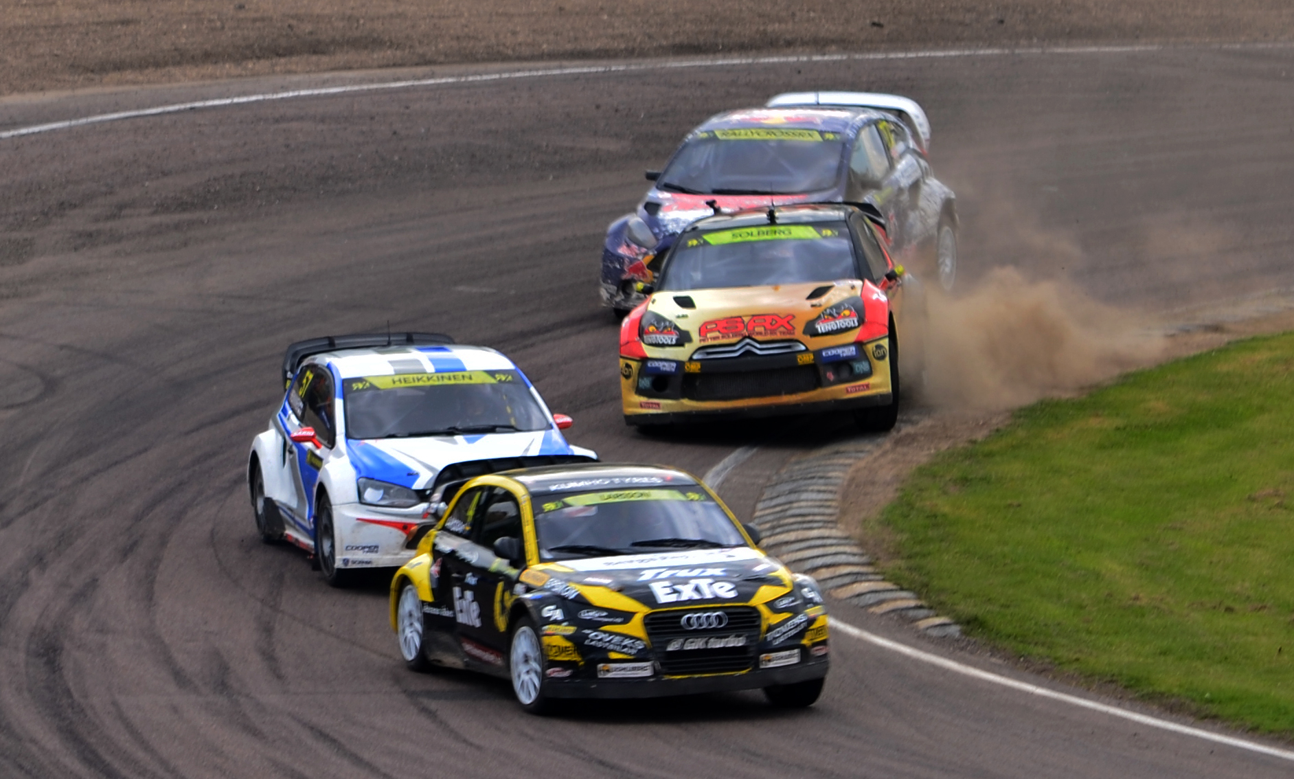 Close racing during the super car final of round 2 of the 2014 World Rallycross Championship at Lydden Hill as Robin Larsson leads Toomas Heikkinen, Petter Solberg and Andrew Jordan.